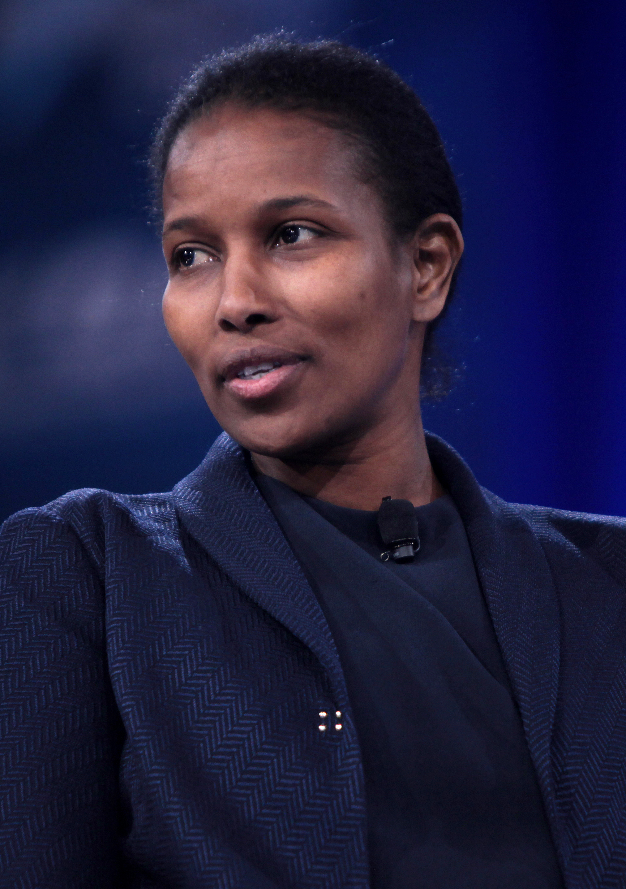 Ayaan Hirsi Ali speaking at CPAC 2016 in National Harbor, Maryland.